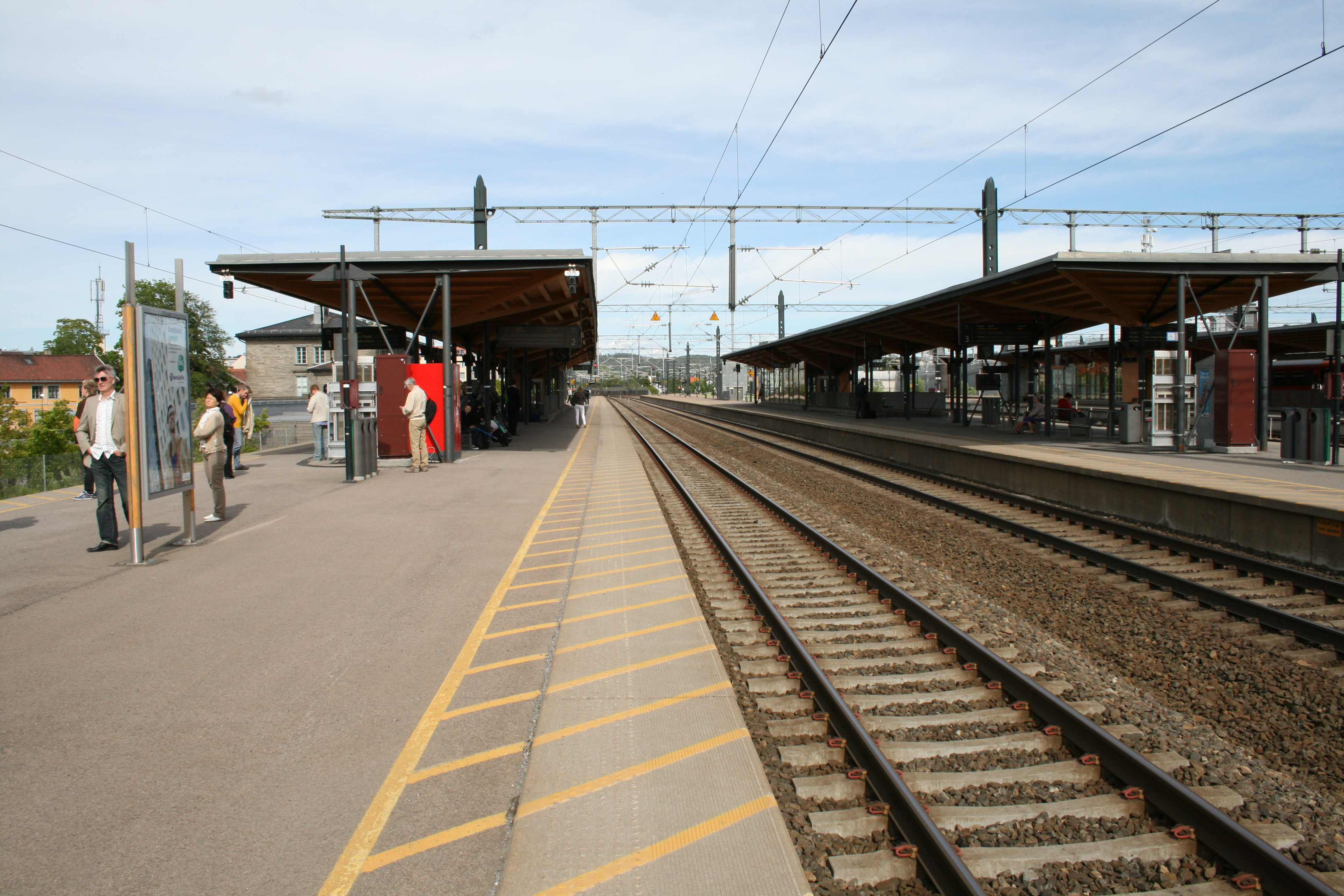 Lillestrøm Station, Norway